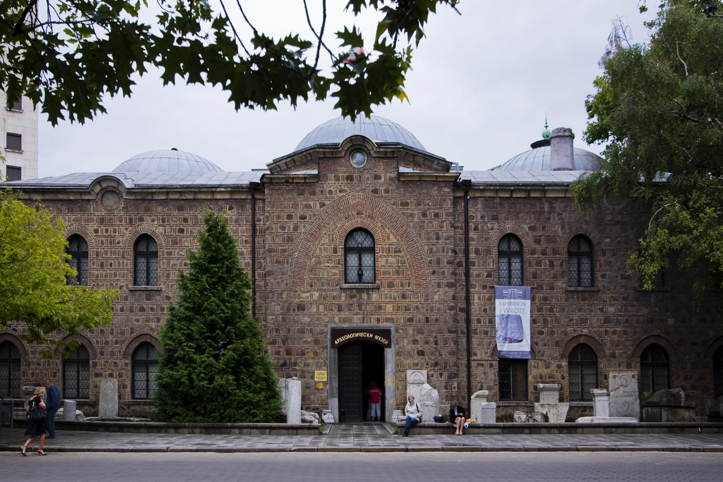 The Bulgarian National Archaeological Museum is located in the centre of Sofia. It occupies the builting of an Ottoman mosque, the Byuyuk Mosque, where it has been housed for over a 100 years.